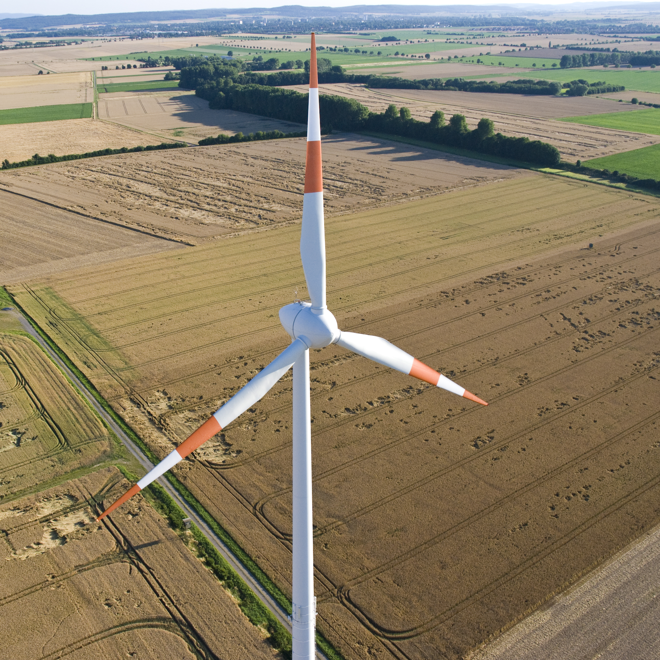 A wind turbine manufactured by Enercon. This photo was taken up from air. During a flight from Braunschweig to Hildesheim (in Germany, Lower Saxony).